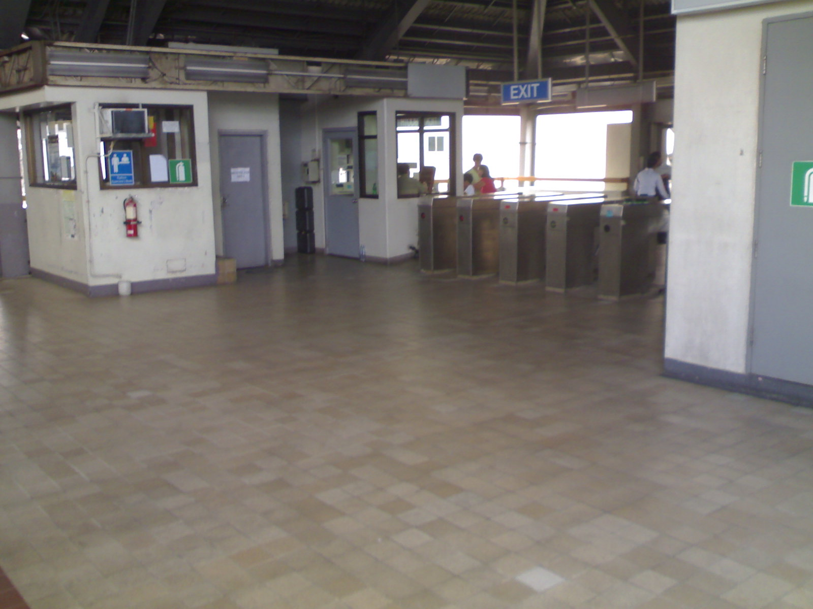 Concourse area of Abad Santos LRT Station, Manila